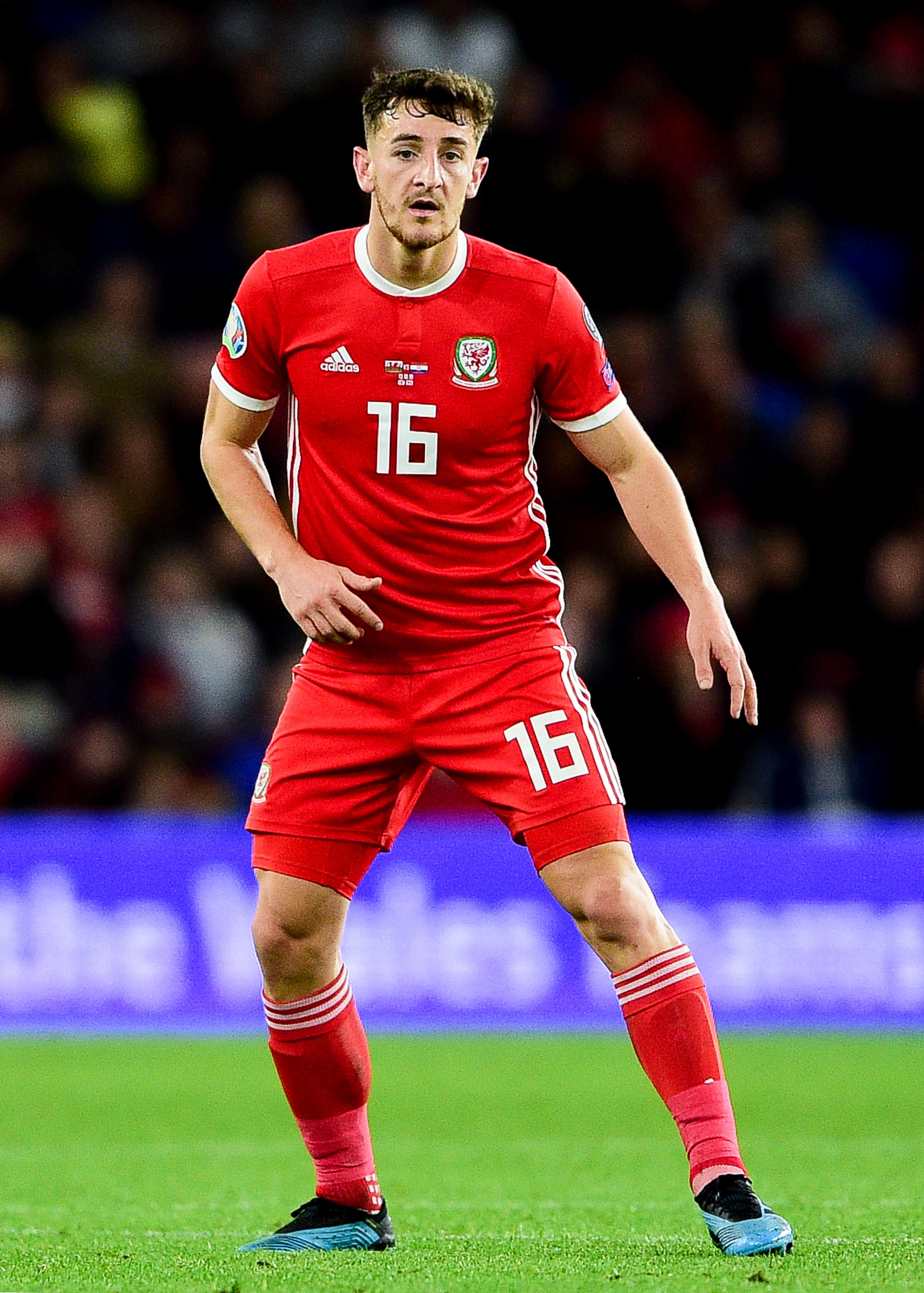 Tom Lockyer of Wales in action against Croatia in the UEFA Euro 2020 Qualifying game at Cardiff City Stadium